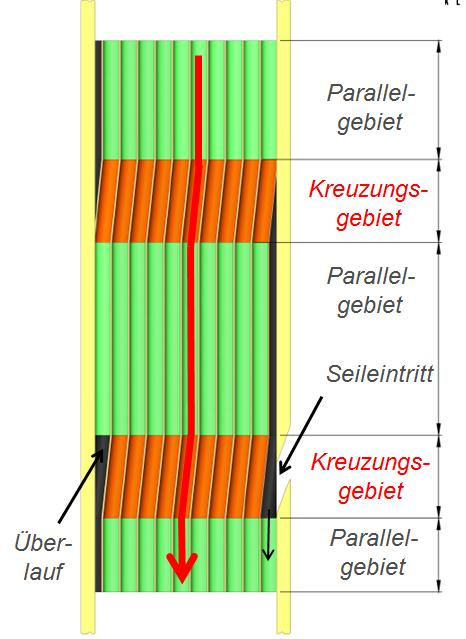 Principle of multilayer wire rope spooling # 1